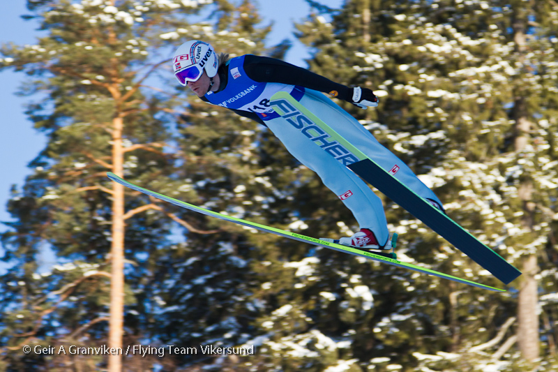 Bjørn Einar Romøren, who held the former world record from Planica (239 m), missed badly in the qualification round and therefore didn't qualify for the World Cup competition. He did a great job as a trial jumper however (not a single jump less than 200 meters as we can recall), and having an athlete of that class in this role is very valuable for the jury in deciding what start gate to use during the competition.